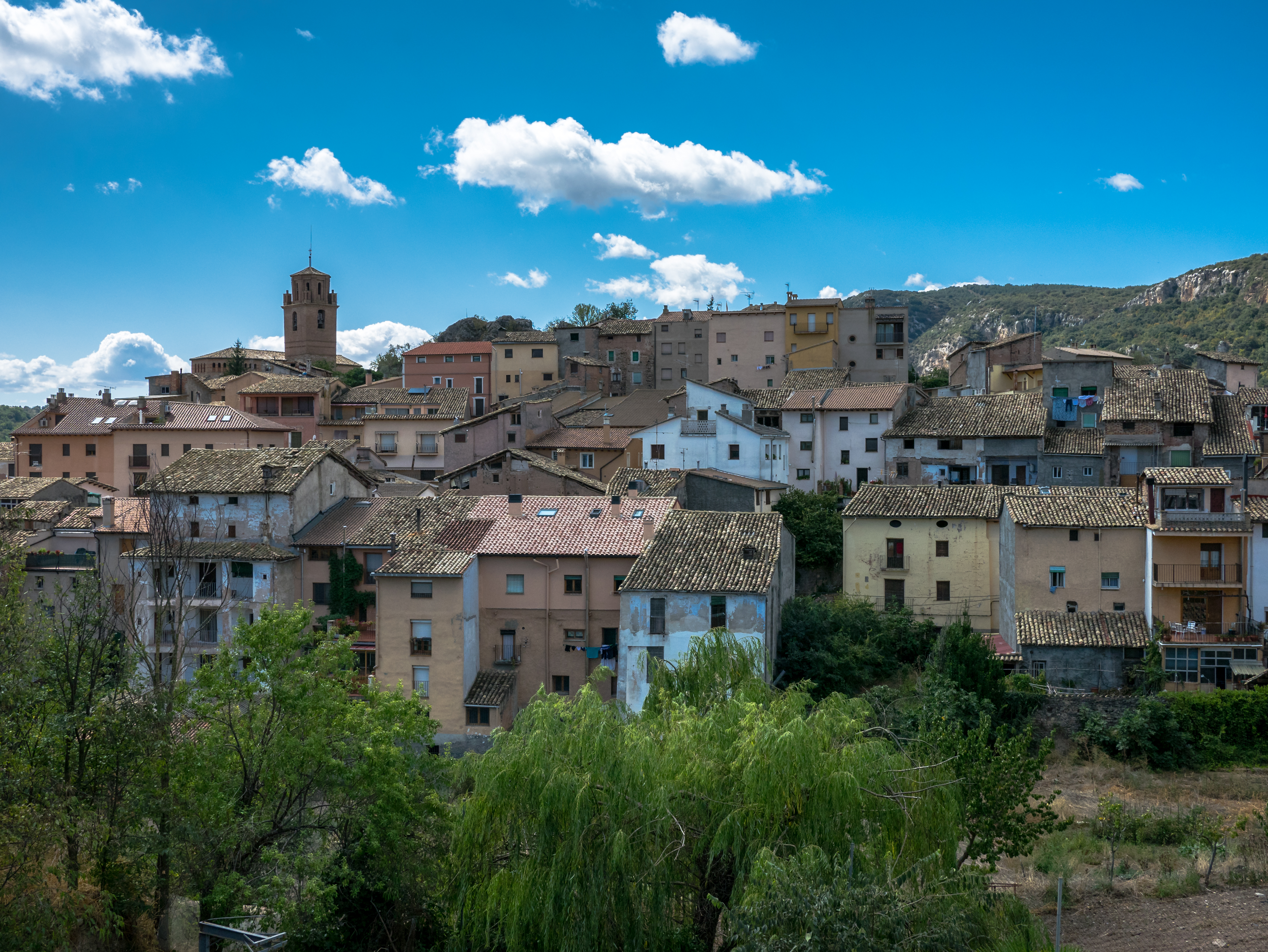 View of Naval, Huesca, Aragon, Spain